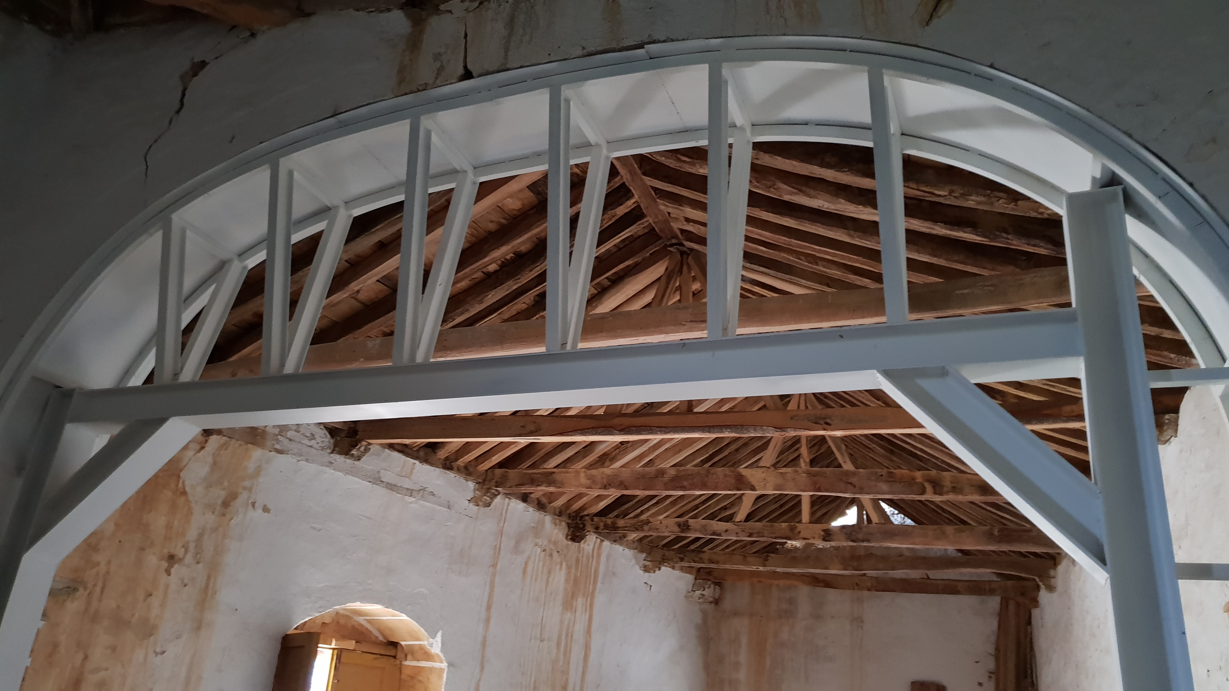 Arco metálico de apoyo de la ermita de San Roque